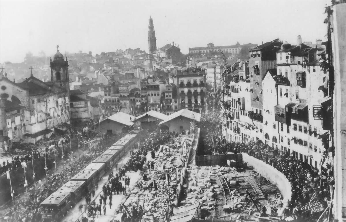 the first train arriving at the temporary São Bento station in Porto, Portugal